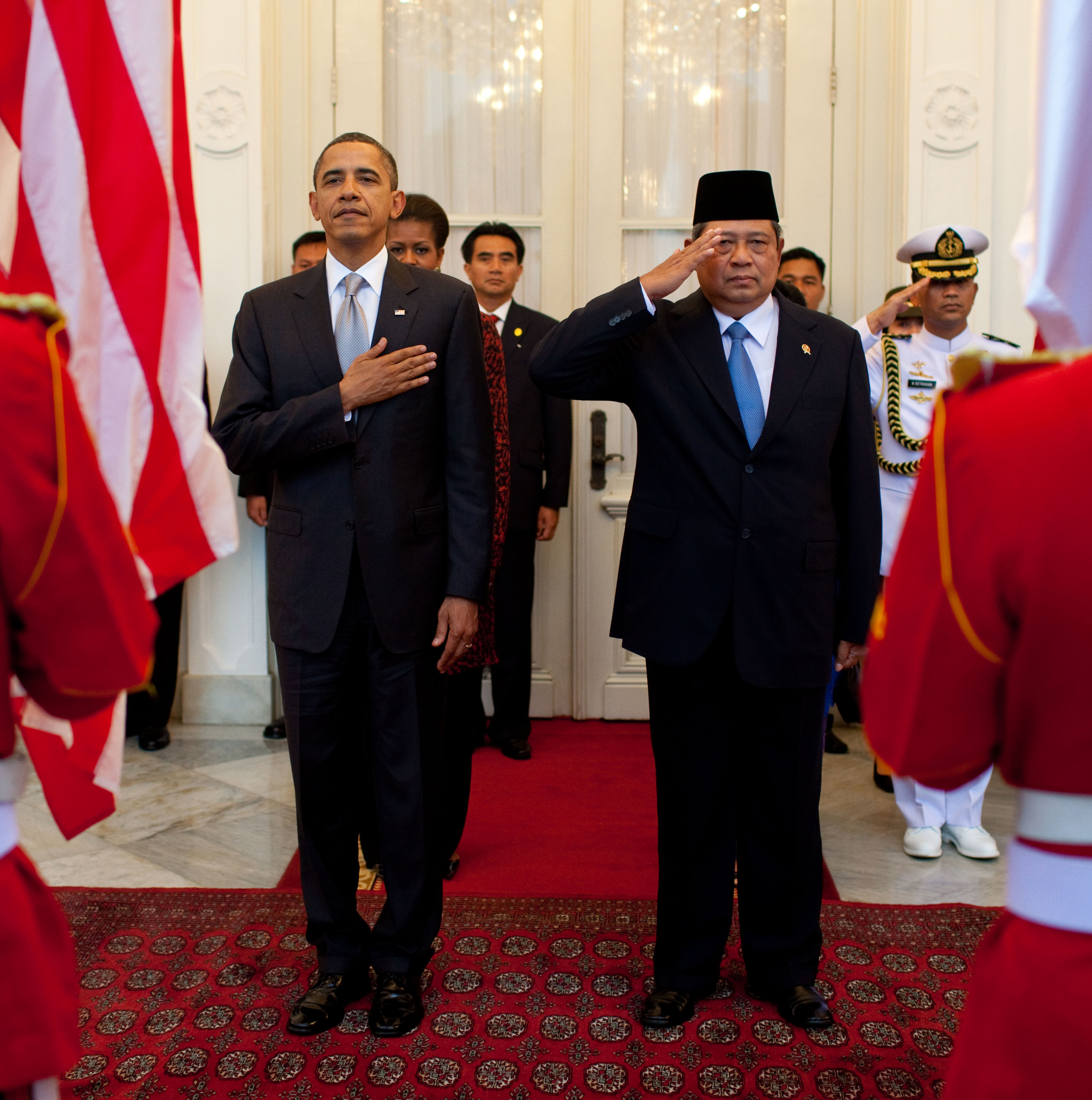 President Barack Obama and Indonesia's President Susilo Bambang Yudhoyono participate in the arrival ceremony at the Istana Merdeka State Palace in Jakarta, Indonesia, Nov. 9, 2010. (Official White House Photo by Pete Souza) This official White House photograph is in the public domain from a copyright perspective, so while restrictions such as personality or privacy rights may apply, in general, manipulations are allowed.